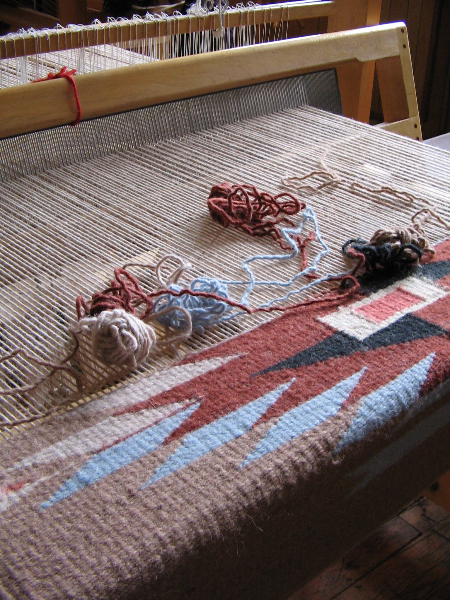 Native American loom, Santa Fe, New Mexico